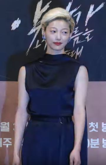 Lee El